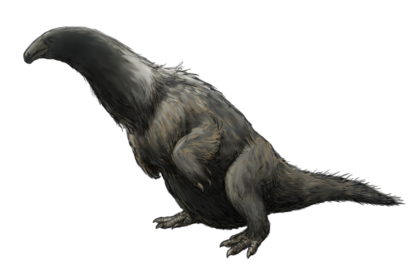 Restoration of Erliansaurus bellamanus. Based on the fossils depicted in the original description:[1]